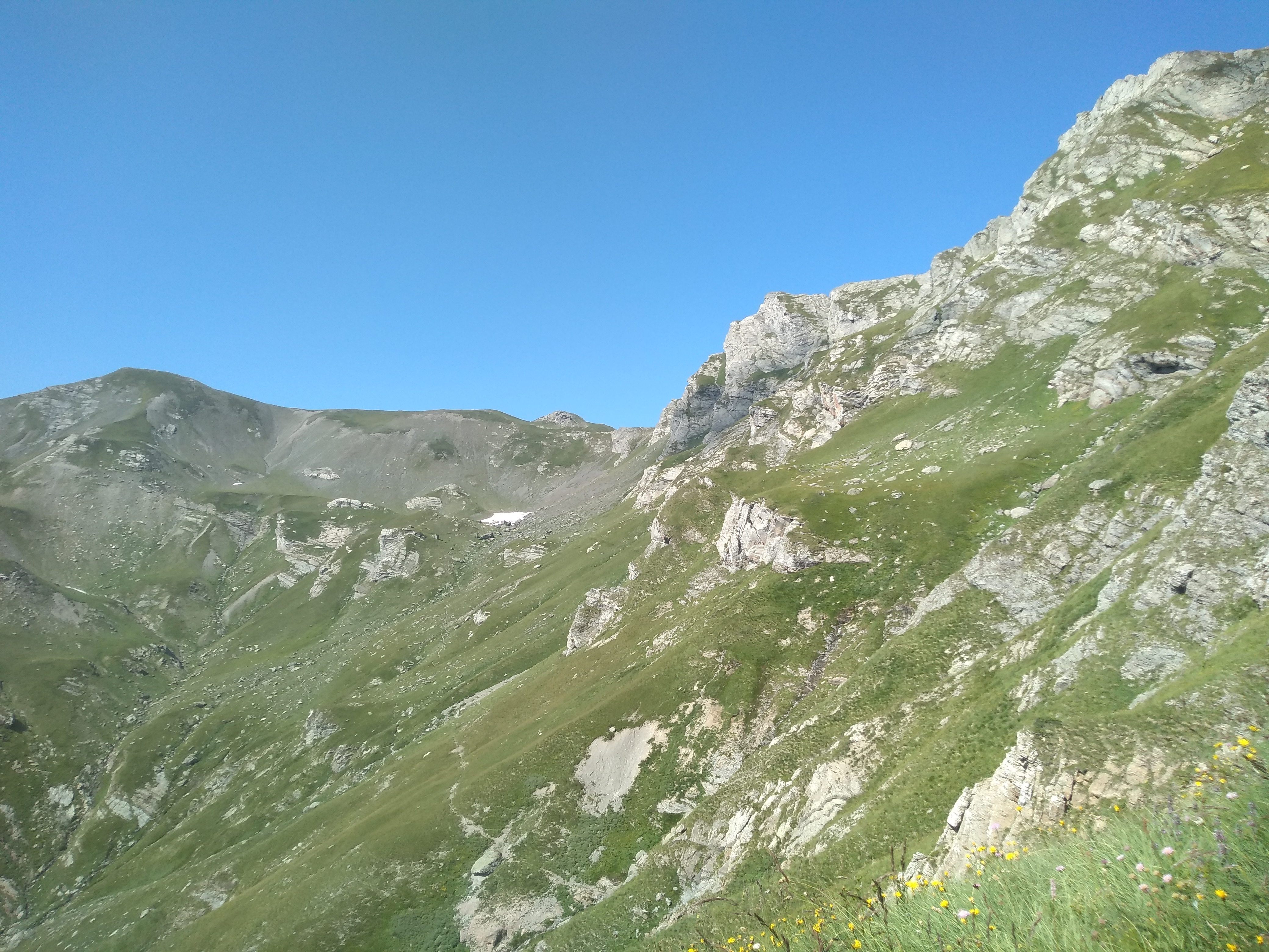 Boazi peak on Korab mountain, Macedonia